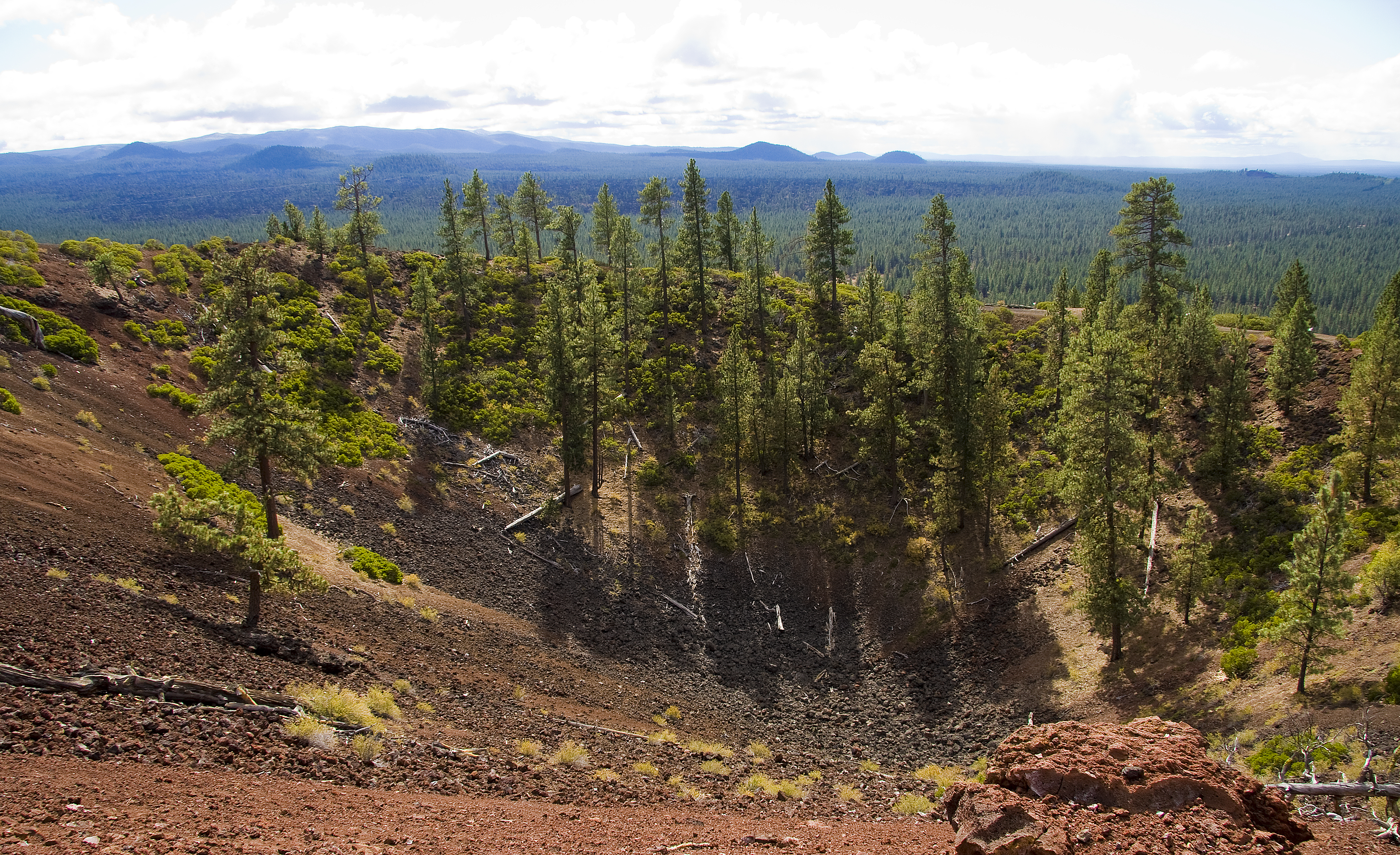 Summit of Lava Butte cinder cone south of Bend, Oregon, USA with Newberry Caldera in the distance.